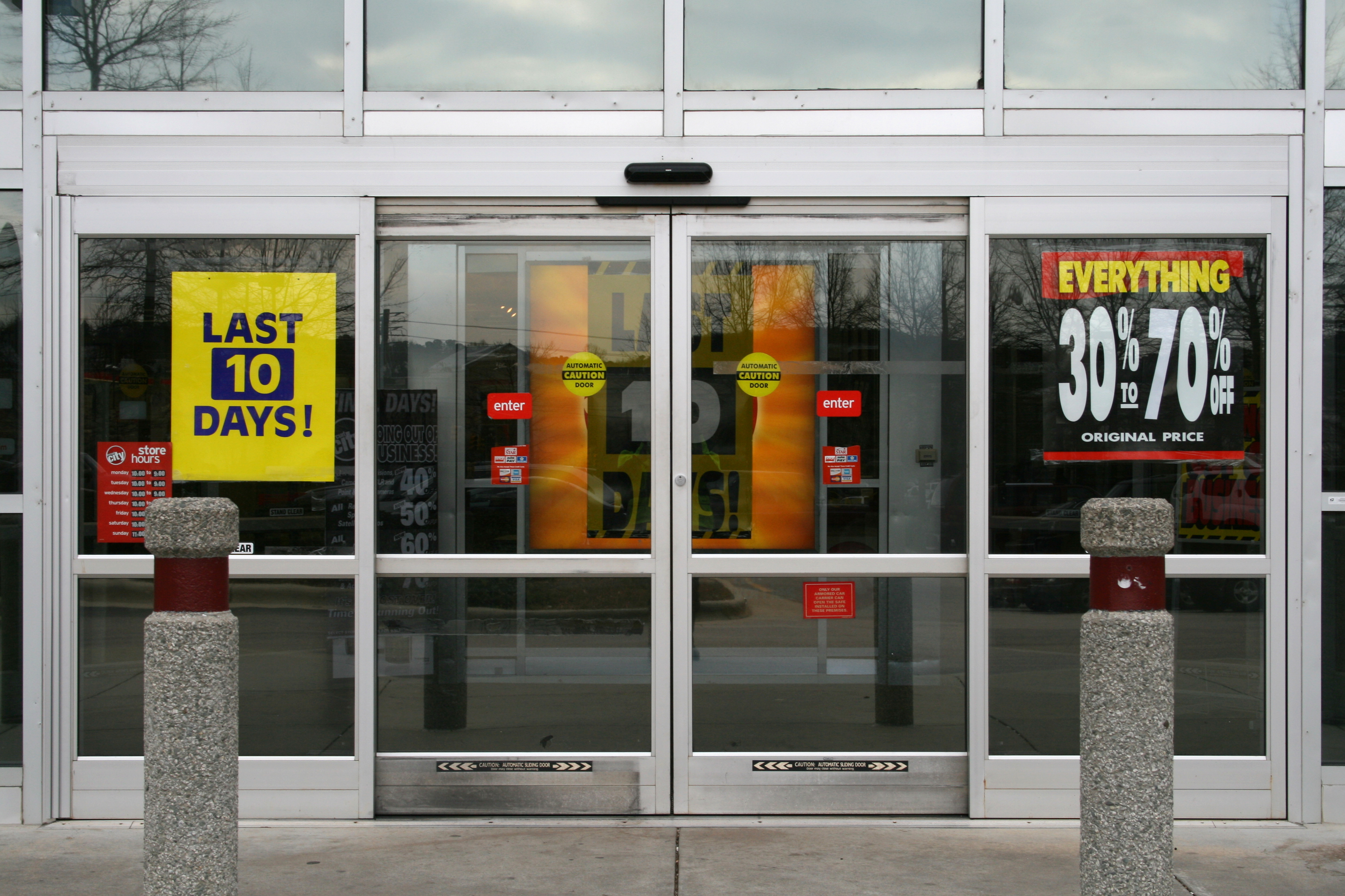 The front entrance of the Circuit City at 4601 Creedmoor Road in Raleigh, North Carolina, as the chain is going out of business.